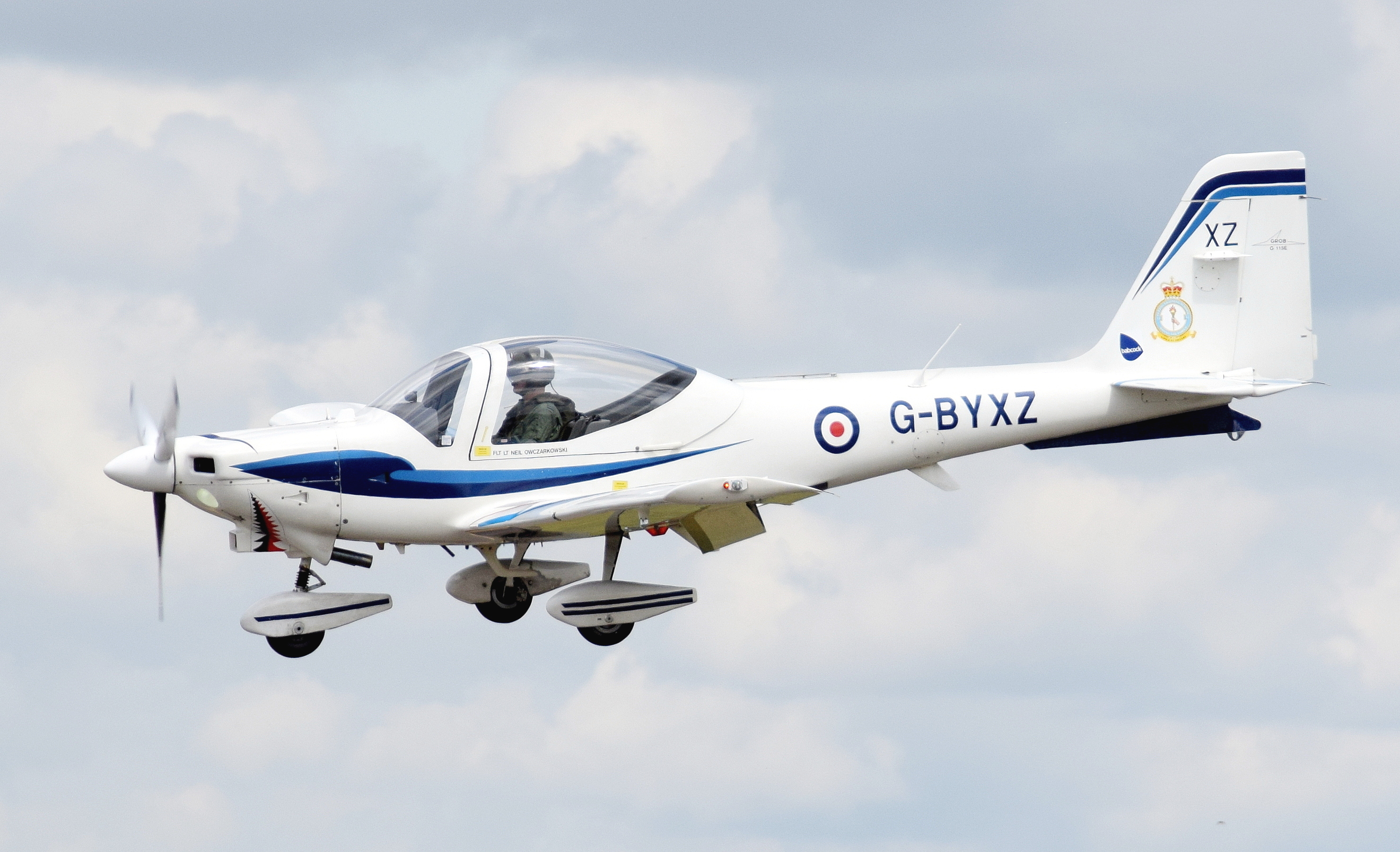 Grob G-115E Tutor T1 (G-BYXZ) of the Royal Air Force arrives at the 2019 Royal International Air Tattoo, RAF Fairford, England. Built 2001.